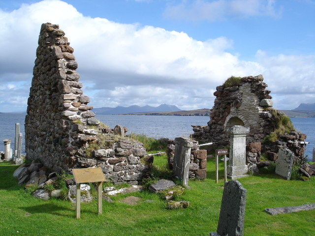 Chapel of Sand of Udrigil